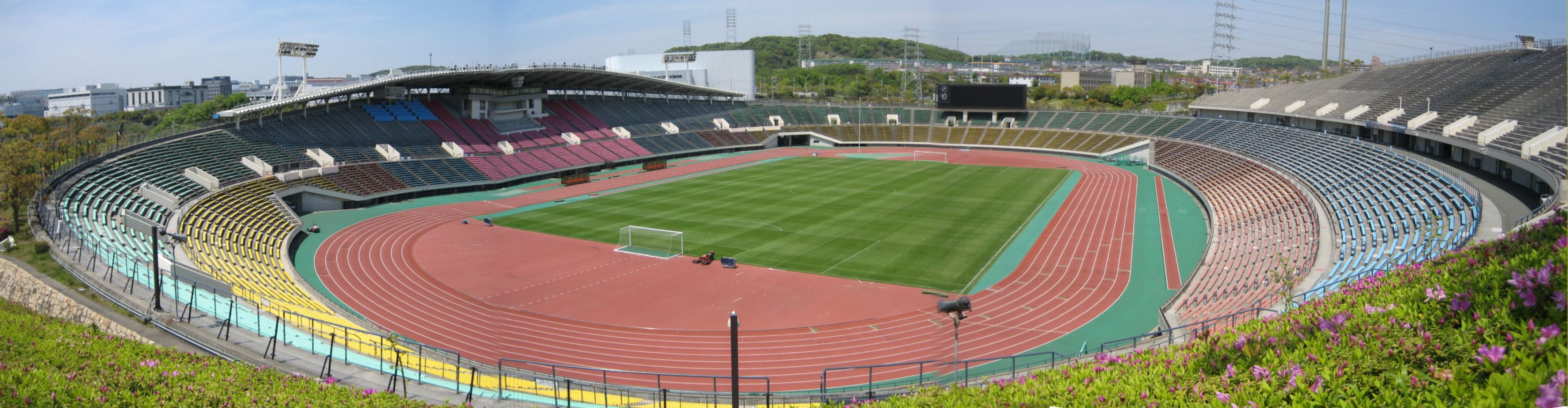 Universiade Memorial Stadium in Kobe, Japan (Panorama stitch)